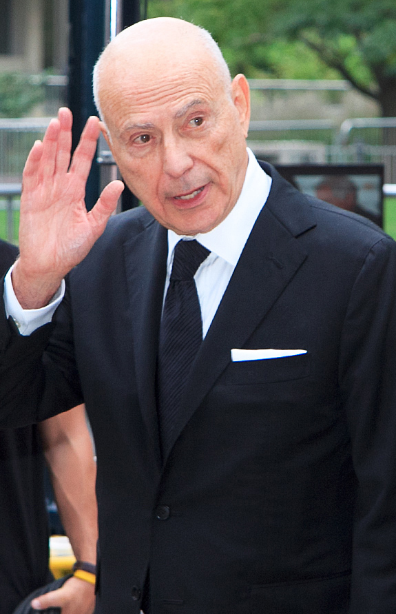 Alan Arkin with his wife Suzanne Newlander at the 2012 Toronto International Film Festival.